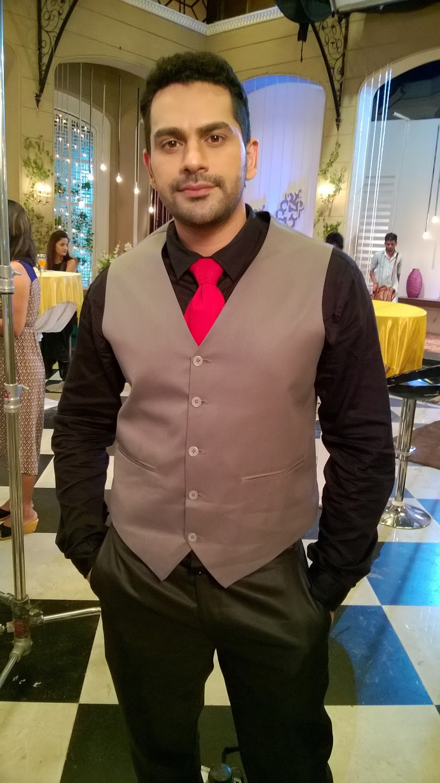 Actor Gaurav Nanda While Shooting